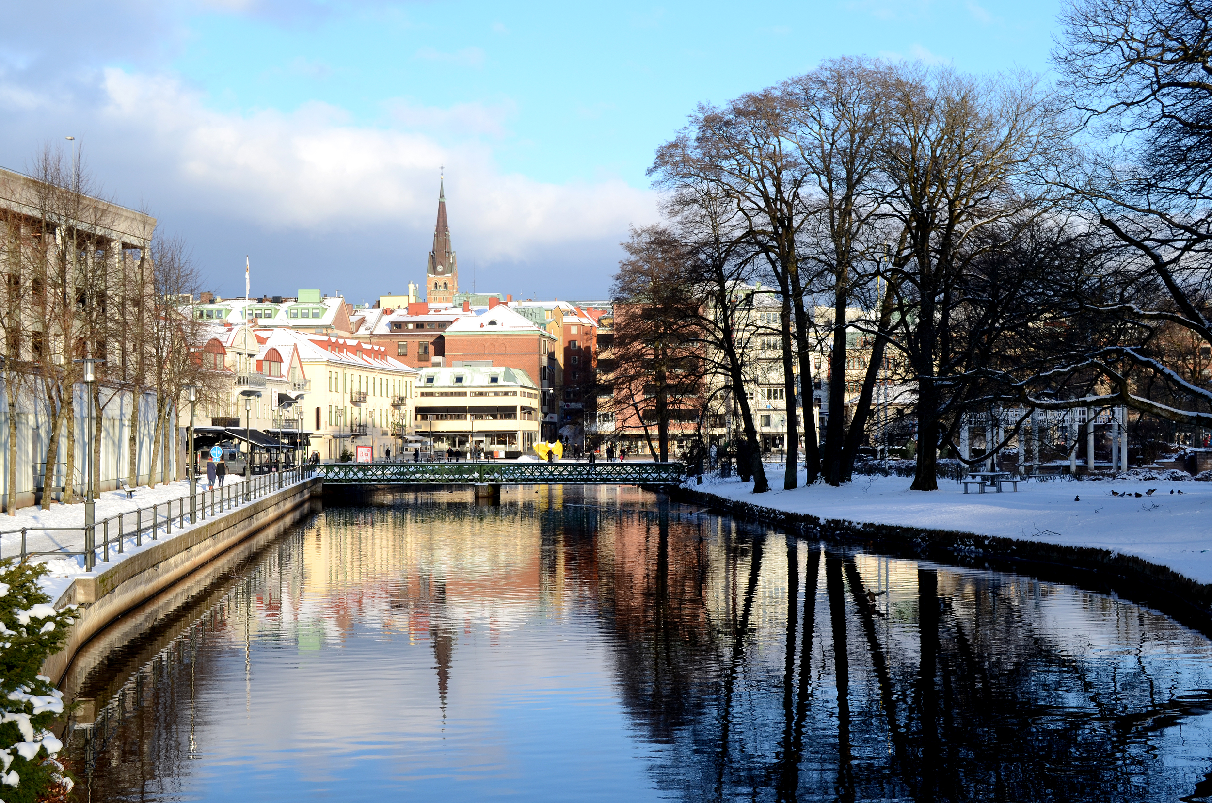 DownTown Borås